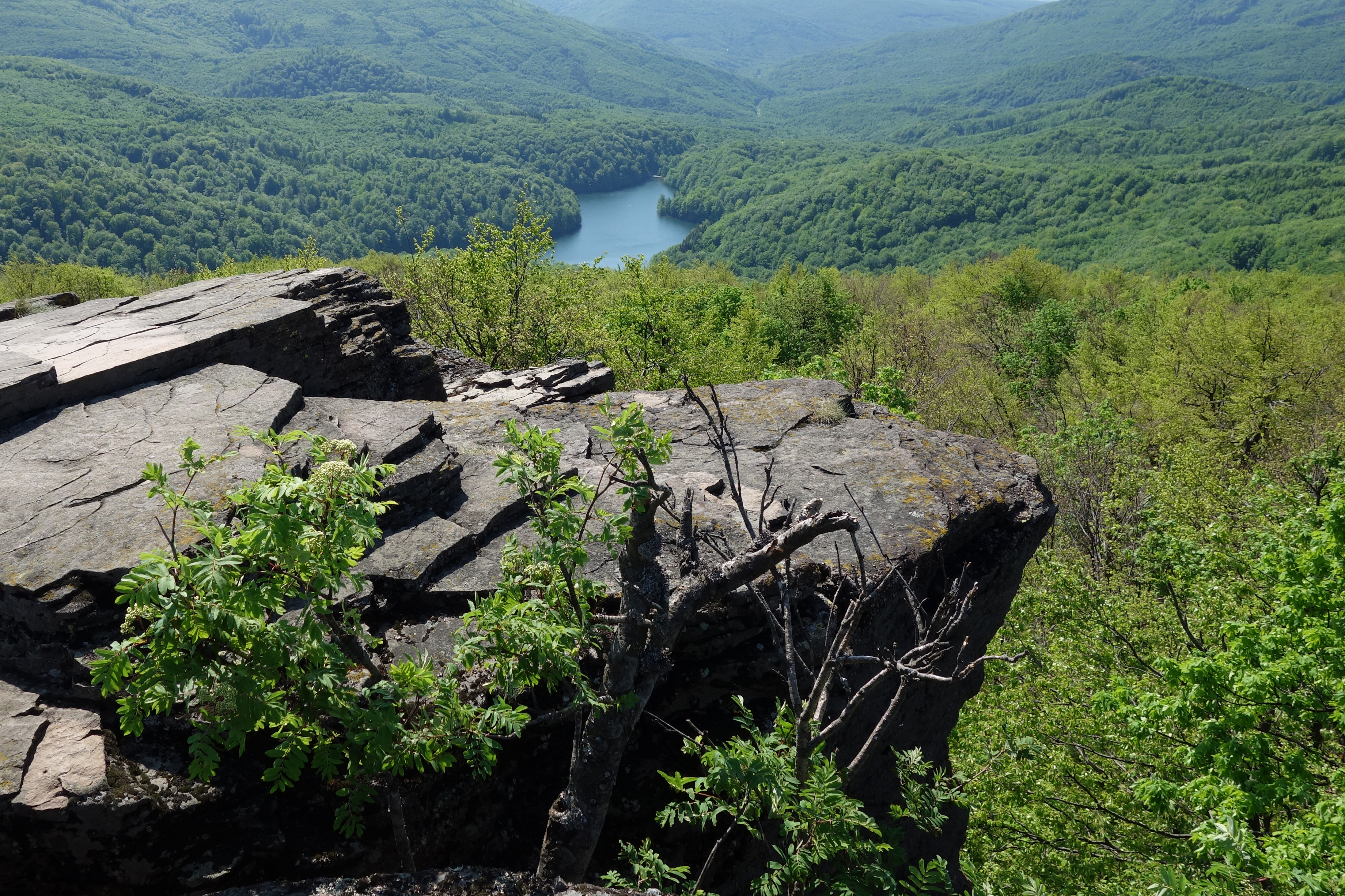 View of Sea Eye Lake from Sninský kameň This is a photography of Natura 2000 protected area with ID SKUEV0209